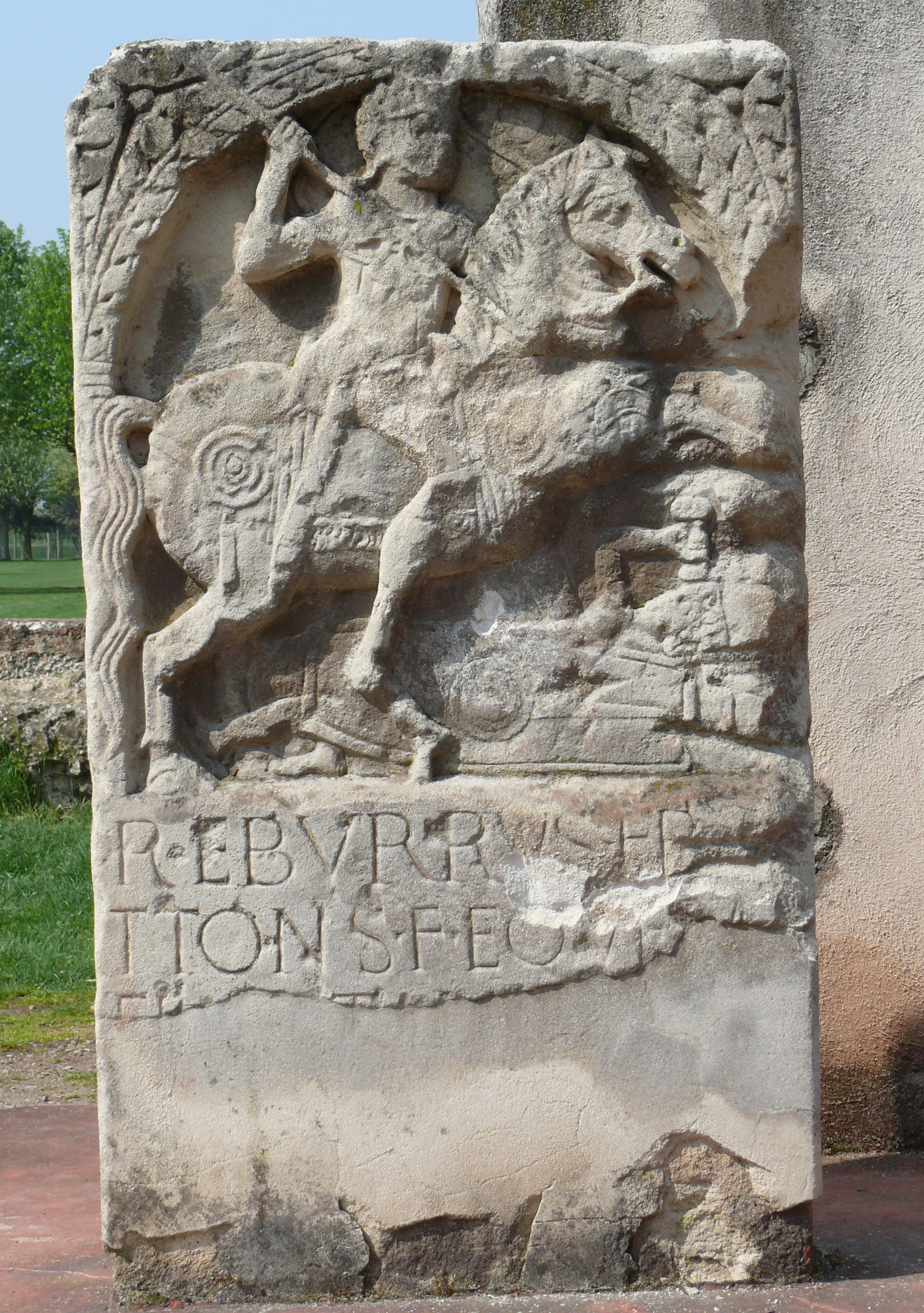 Photo taken in the Archeological Park Xanten Latin inscription, see German text. Tombstone of Reburrus, son of Friatto, horseman of the Ala Frontoniana... Reburrus was of German descent and served in an auxialiary unit of the Roman Army. In the 1st century the Ala Frontoniana was stationed first in Bonn, then in the area of Moers-Asberg. Reburrus is depicted as a victor over the Germans.